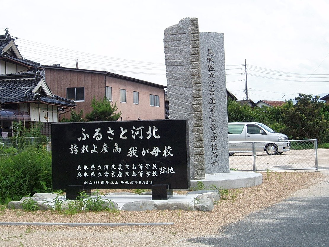 Memorial of former Kurayoshi Sangyo High School (closed in March 2005), located in Ageicho, Kurayoshi, Tottori, Japan.